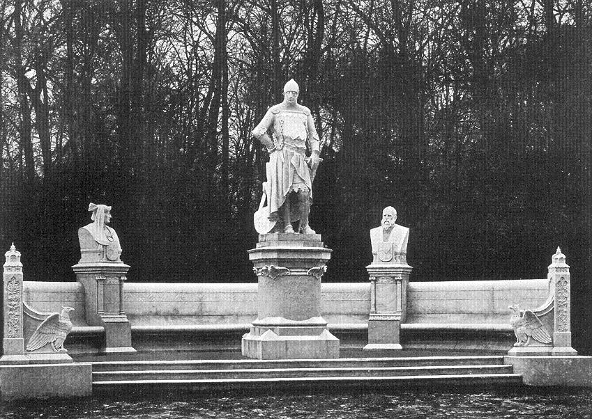 Monumentgroup No. 12 in the former Siegesallee in Berlin. The central monument commemorates to Otto V, Duke of Bavaria. The bust on the left commemorates to Berlins Münzmeister Thilo von Brügge; the bust on the right to Berlins mayor (?) Thilo von Wardenberg (Tiele Wardenberg). Sculptor: Adolf Brütt, inaugurated 22 March 1899.